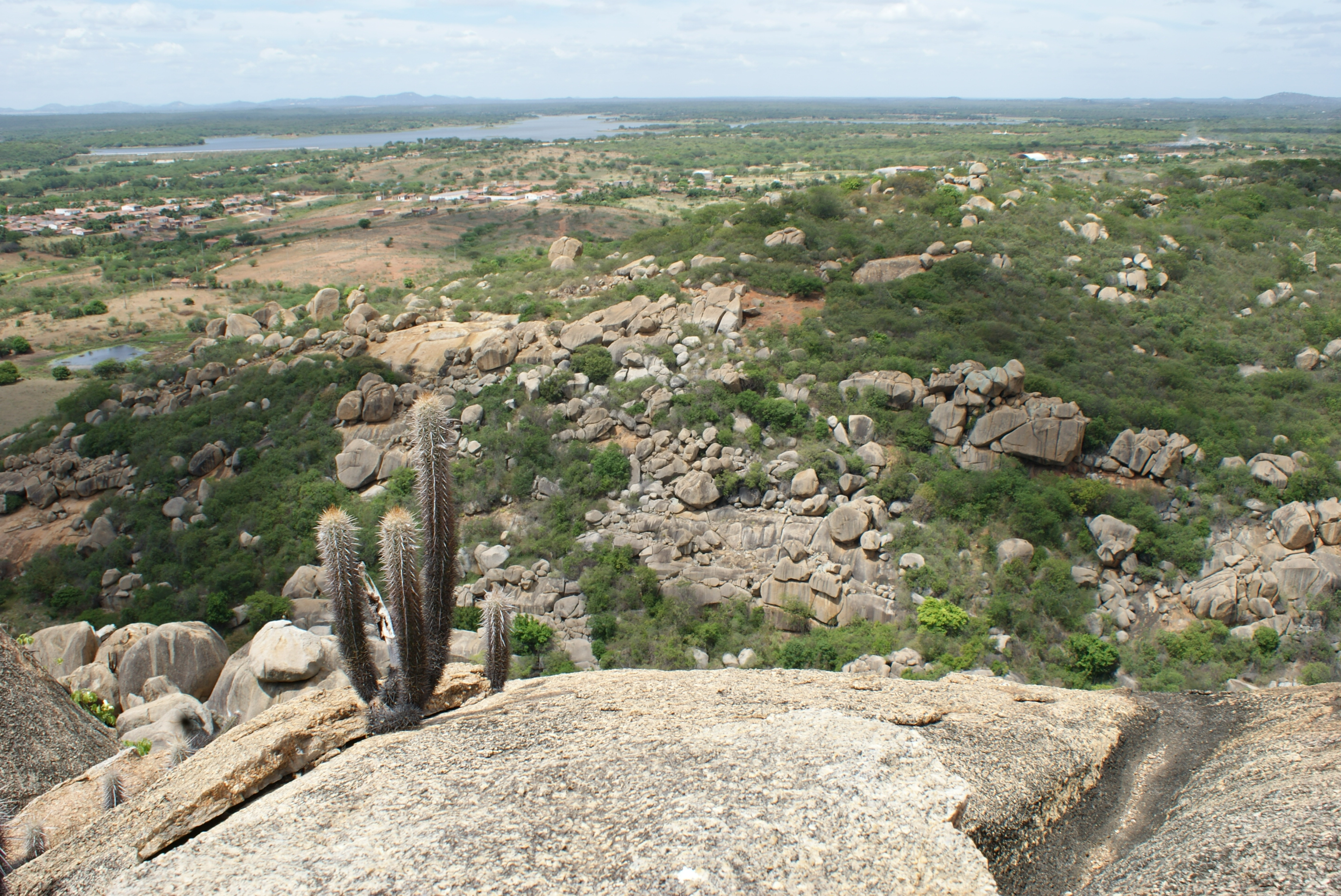 Do alto da montanha - from the top mountain